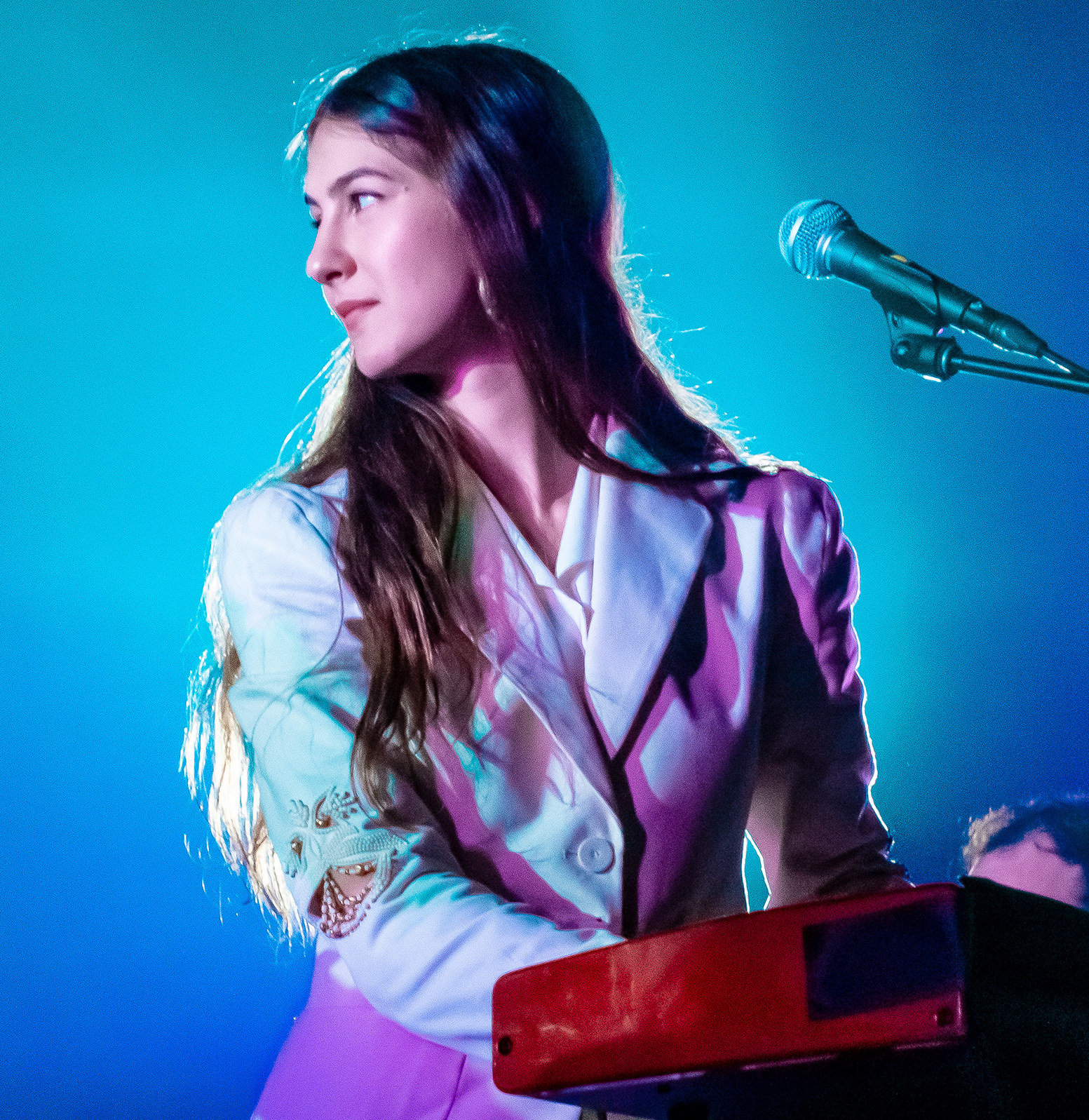 Weyes Blood photographed performing in Los Angeles, 2019.